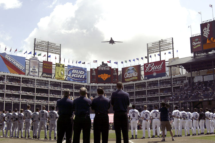 ARLINGTON, Texas -- A B-1B Lancer performs a flyover at the Texas Rangers first season home game here, April 4. The B-1B was from the 28th Bomb Squadron at Dyess Air Force Base. The B-1B was flown by Maj. Michael Jackon Jr., pilot, and co-pilot, 1st Lt. Jade Yim and weapons system officers, Capt. Daemon Hobbs and Capt. Scott Koeckritz. This is the third year Dyess B-1Bs have opened the Rangers season opener at home. (U.S. Air Force photo by Staff Sgt. Adam R. Wooten)